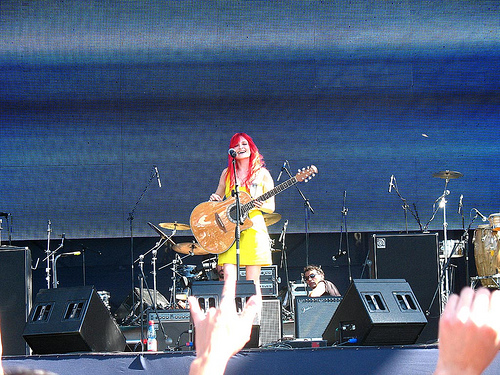 Nicole singing "Hoy" at Cumbre del Rock Chileno II